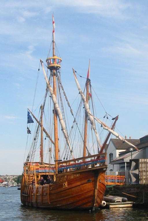 The replica of John Cabot's ship The Matthew. Photographed at its home berth, adjacent to the SS Great Britain in Bristol harbour.